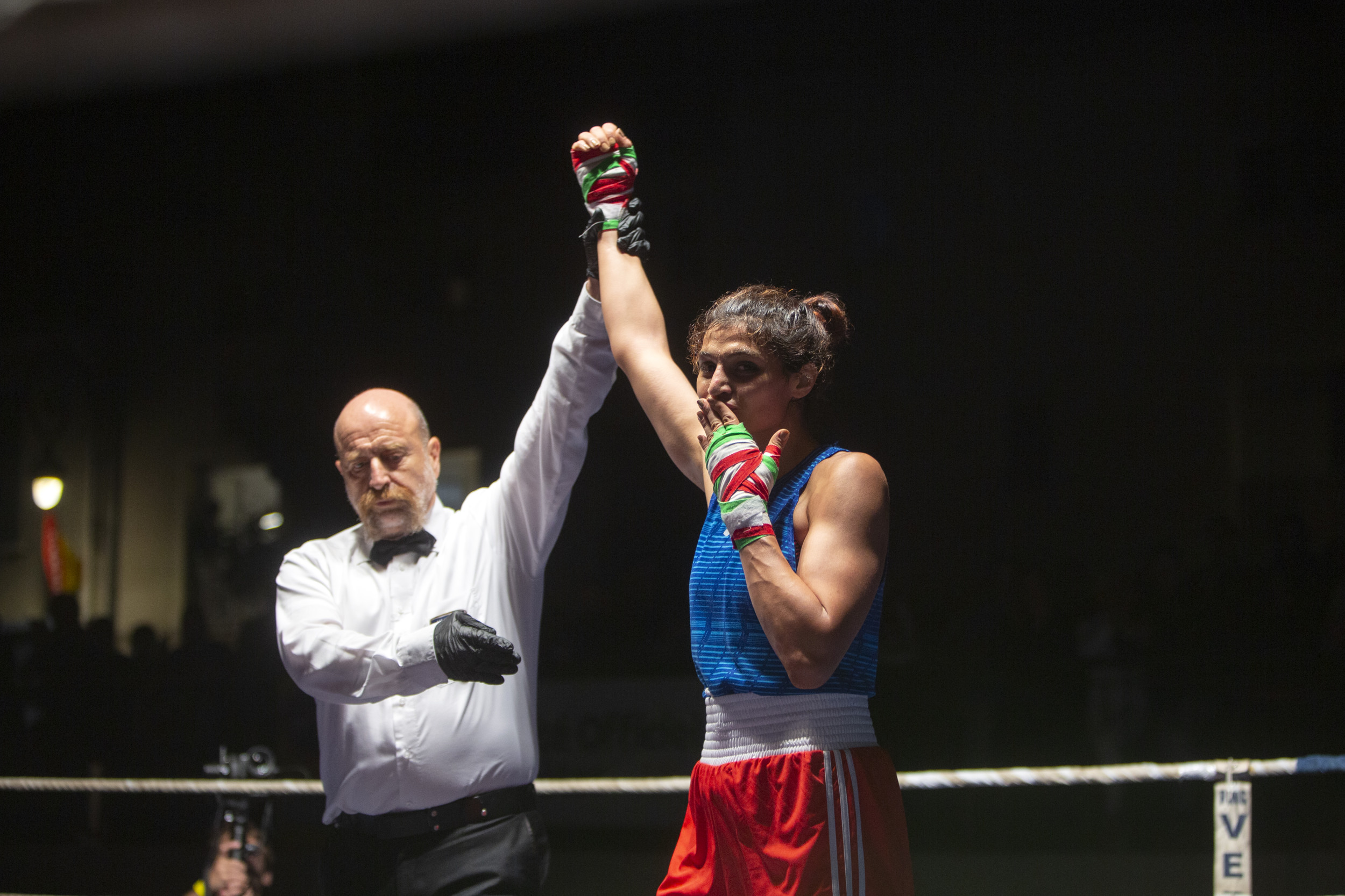 Sadaf Khadem, female boxer from Iran. Date work and License: See below.